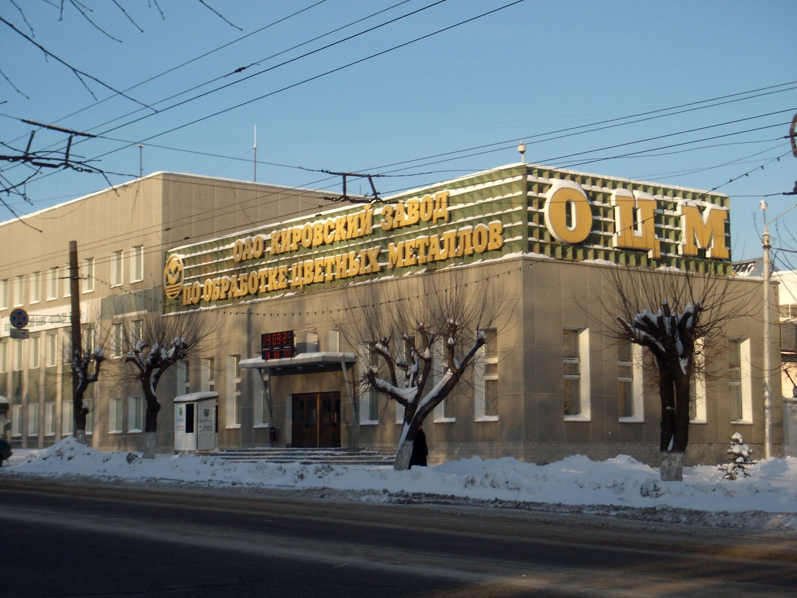 The central gate factory «OCM», Kirov